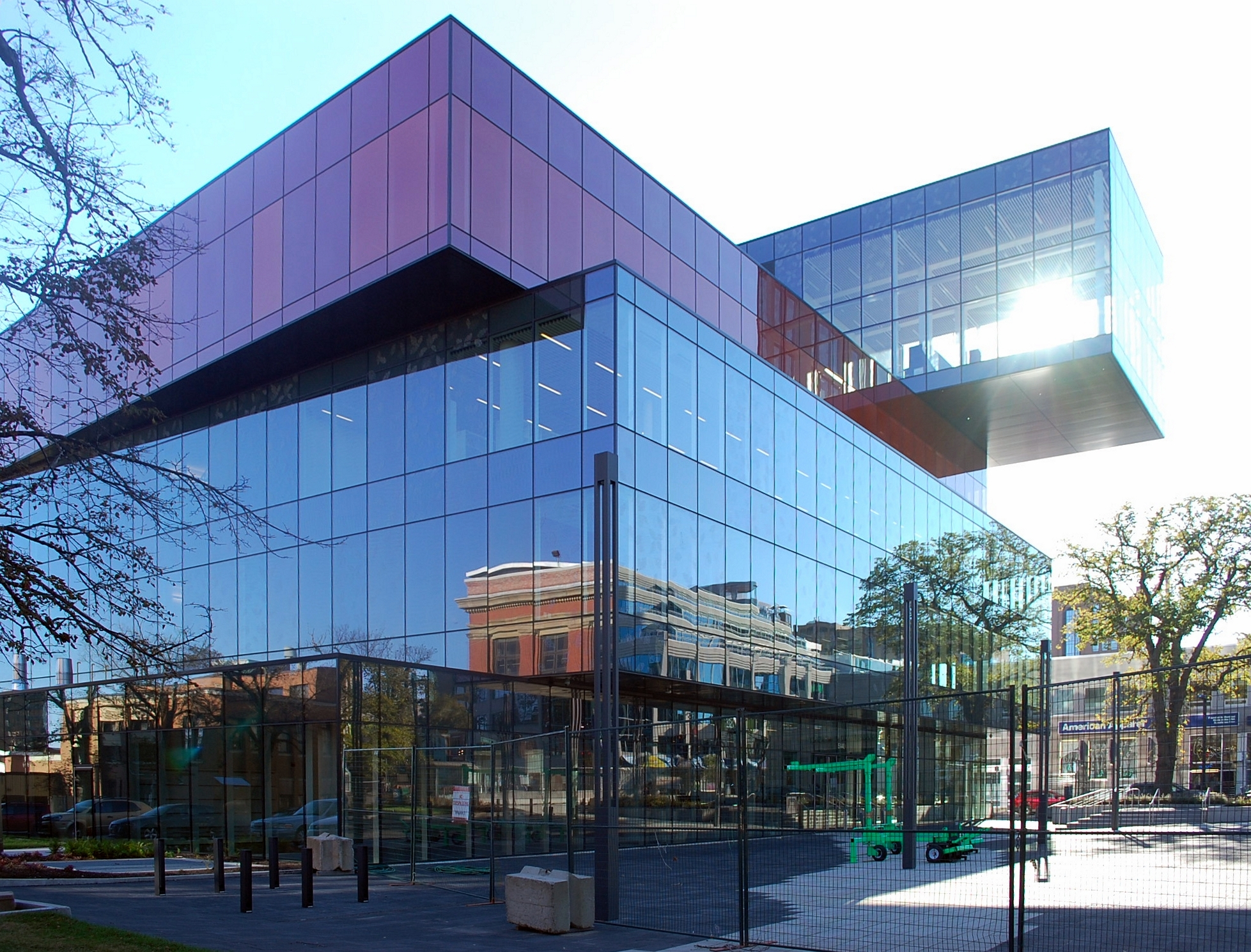 The new Halifax Central Library, nearing completion. Looking west.